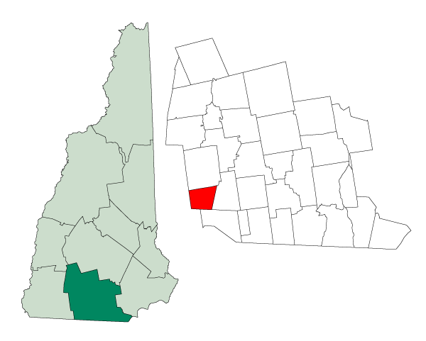 Map of a municipality in Hillsborough County, New Hampshire